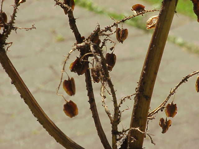 Species: Rheum palmatum Family: Polygonaceae Image No. 1